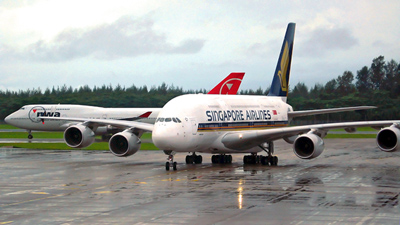 9V-SKA, Singapore Airlines' first A380, together with Northwest Airlines' N667US, at Singapore Changi Airport (SIN/WSSS). (Note: Higher res image available)